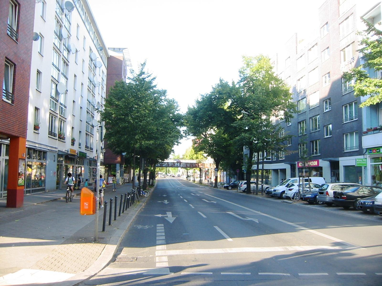 Berlin Alt-Treptow Elsenstraße